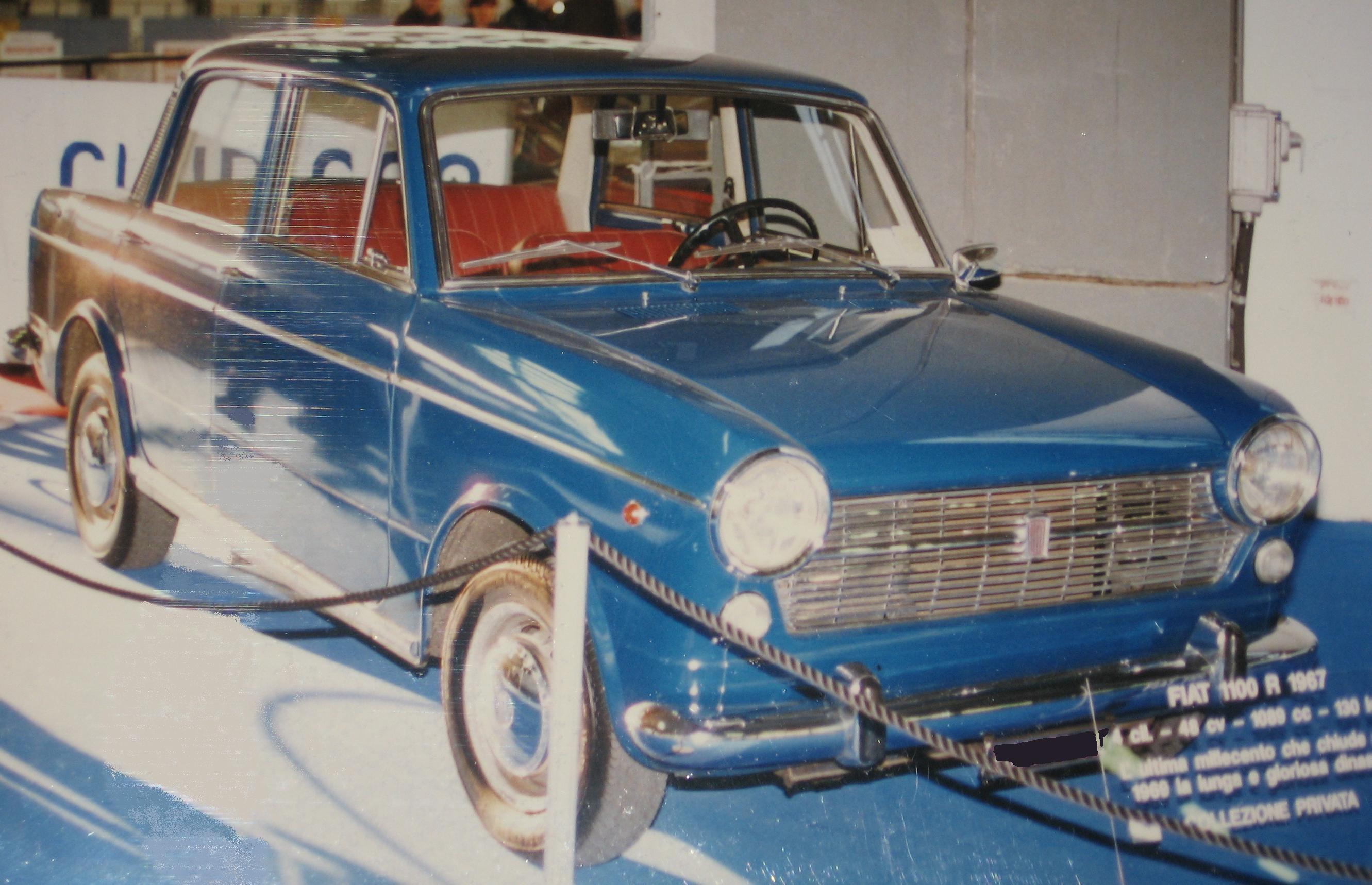 Fiat 1100 R (1966) in Genoa, Italy at an Autostory event